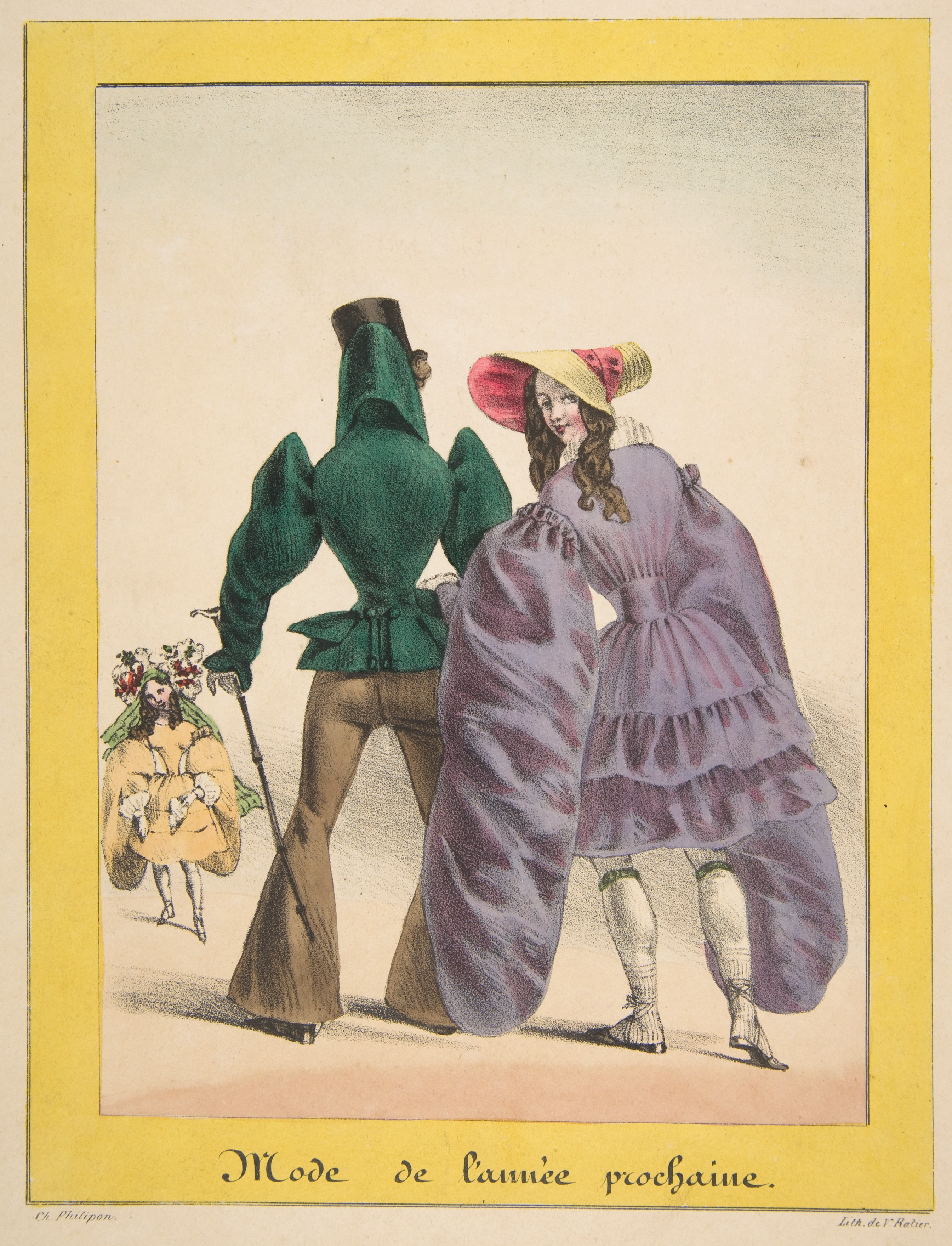 Print; Prints